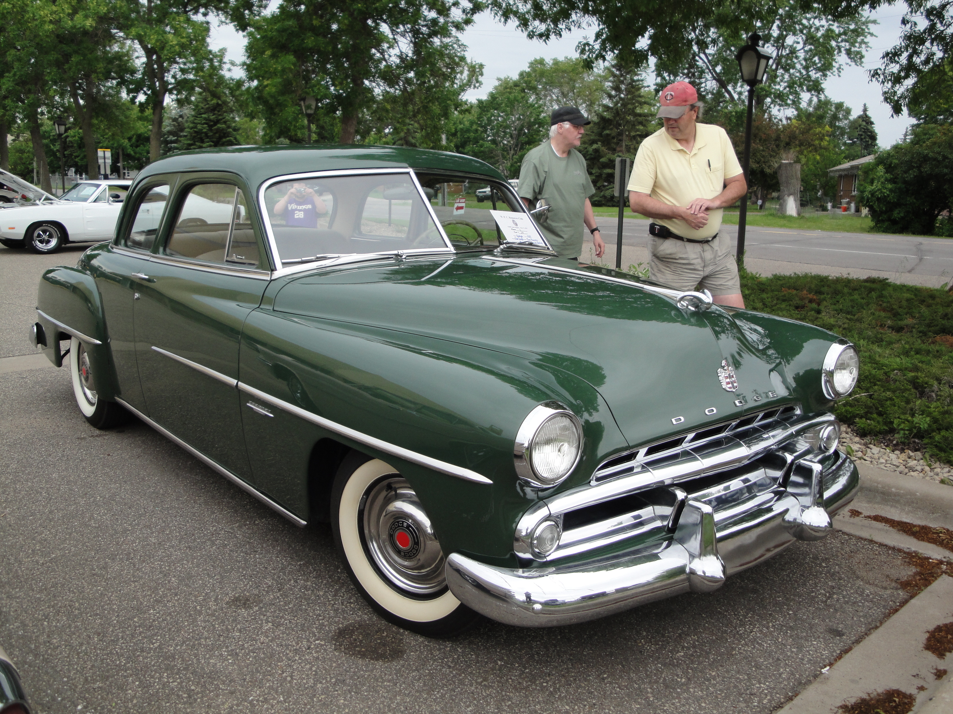 1951 Dodge Coronet Club Coupe